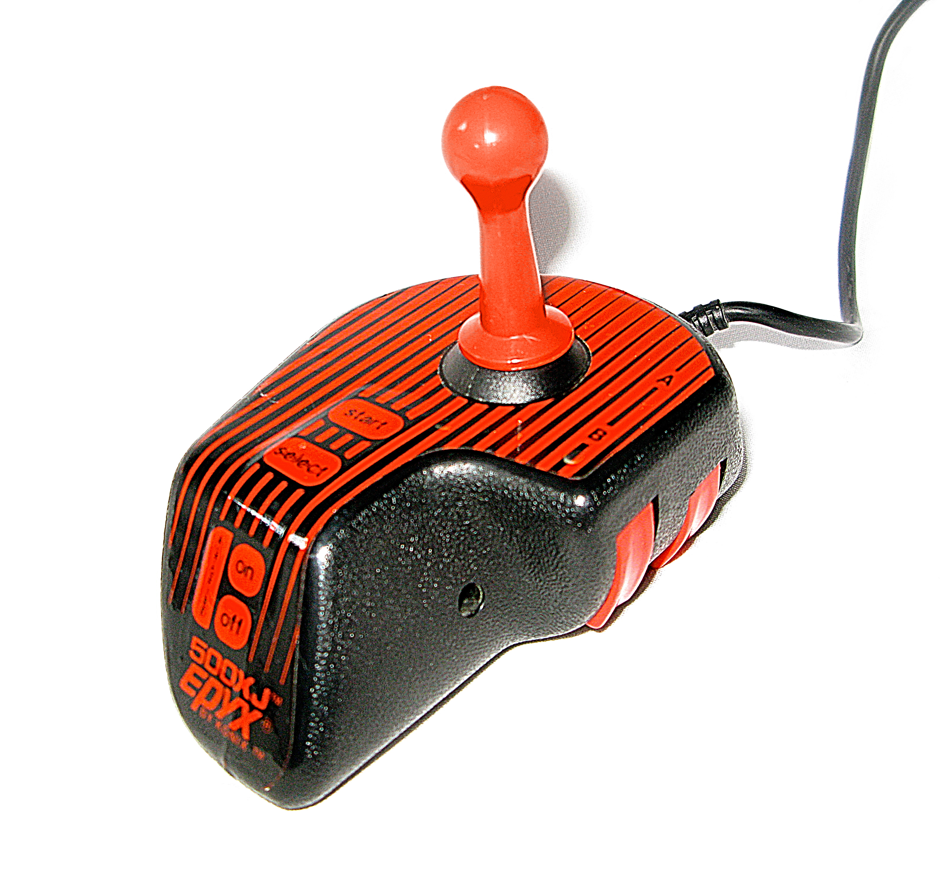 The Epyx 500XJ joystick for the Nintendo Entertainment System